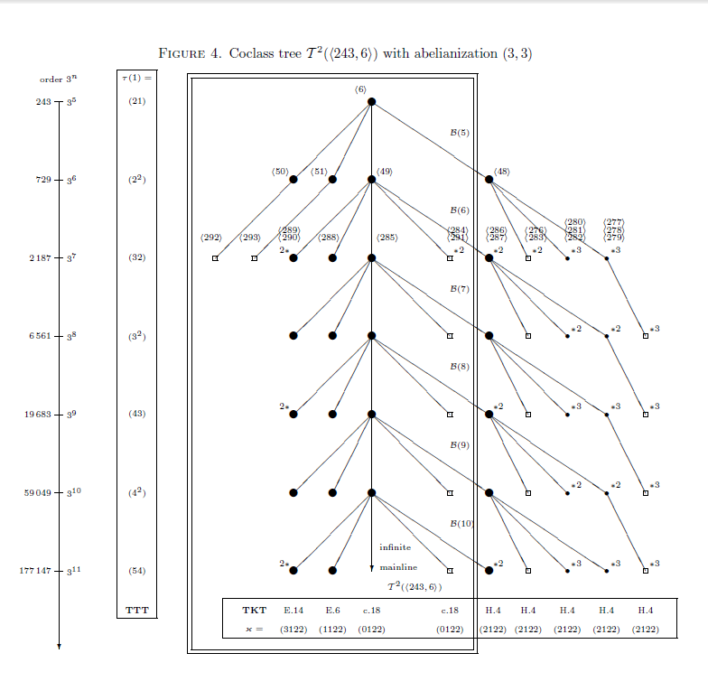 This diagram shows the descendant tree of the root , restricted to finite 3-groups with coclass 2. All vertices possess an abelianization of type (3,3). Important vertices are labelled with their SmallGroups Library identifier in angle brackets. TTT means transfer target type. TKT means transfer kernel type. The mainline descendant of the root was called Q by Judith A. Ascione. The double contour rectangle surrounds the TKT-pruned tree, restricted to TKTs in the sections c and E. User:DanielConstantinMayer added Figure 4 in png-file "TreeCoclass2RootQ"